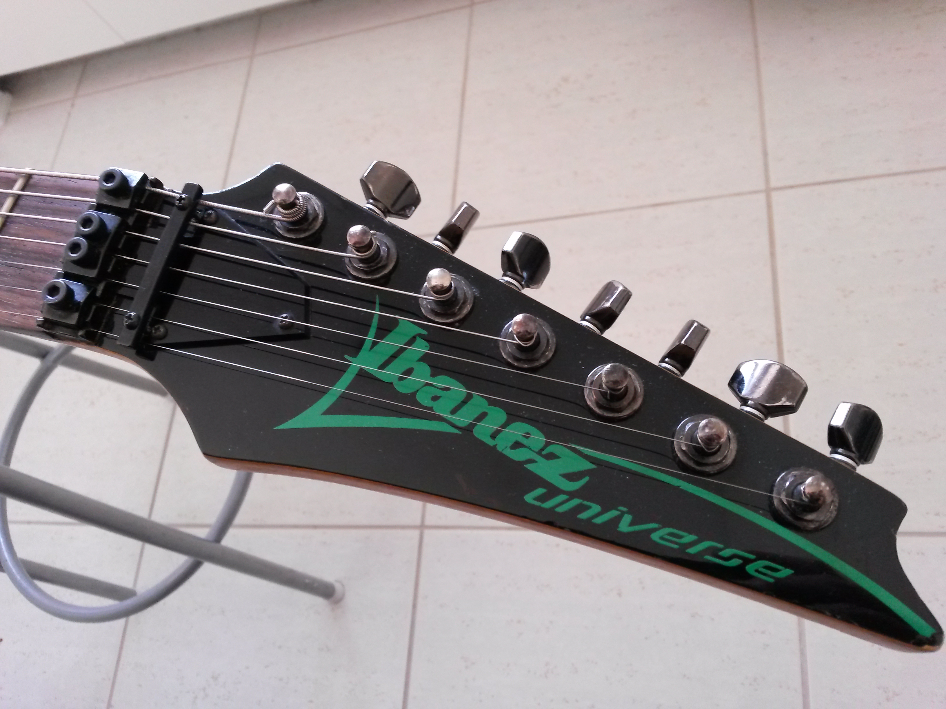 Headstock of Ibanez Universe UV7BK seven string electric guitar.